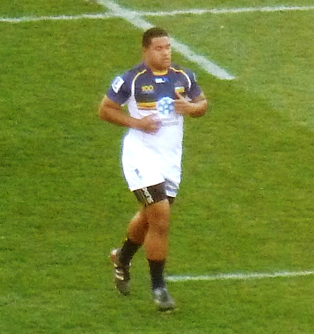 Ita Vaea in Bulls vs Brumbies, Super Rugby semi-final at Loftus